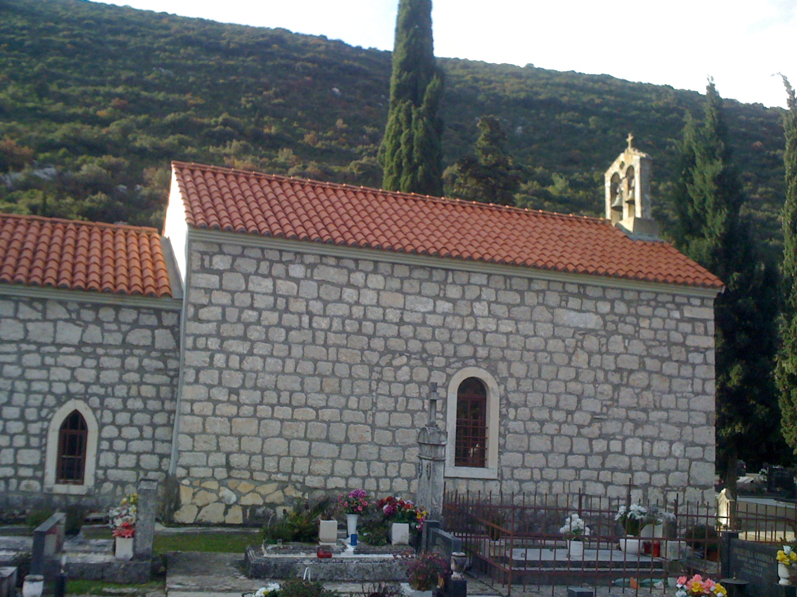 St. Vitus church, Hodilje